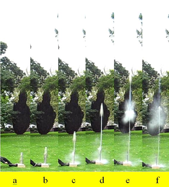 launch of a water rocket. Time sequence after lift off. a: launch, e: last drops are pushed out, 0.1 sec between a and e (bottle 1.5 L, 10 bar; filling level 40%)